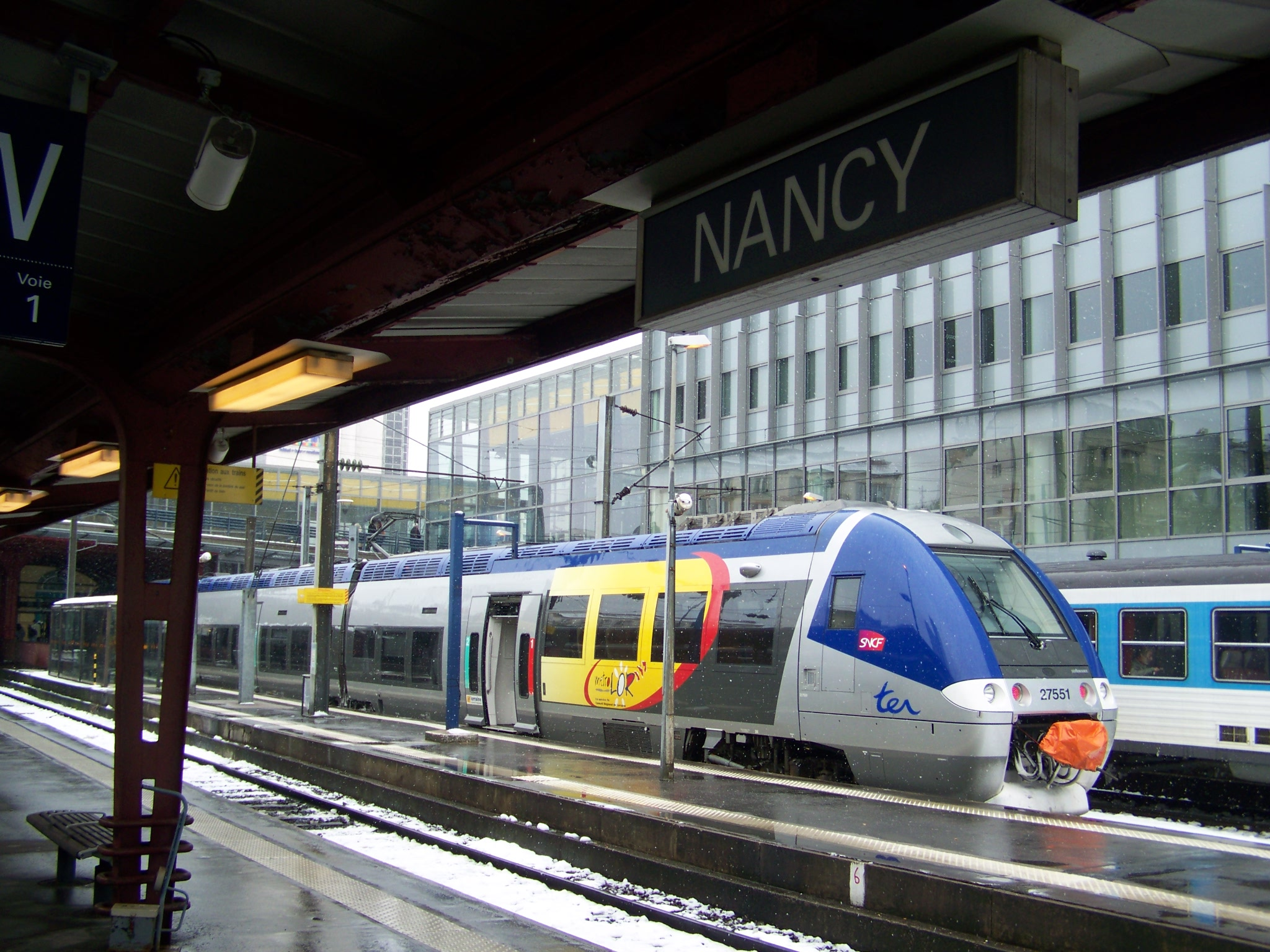 A TER service waiting to depart from one of the deadend platforms at Nancy-Ville.